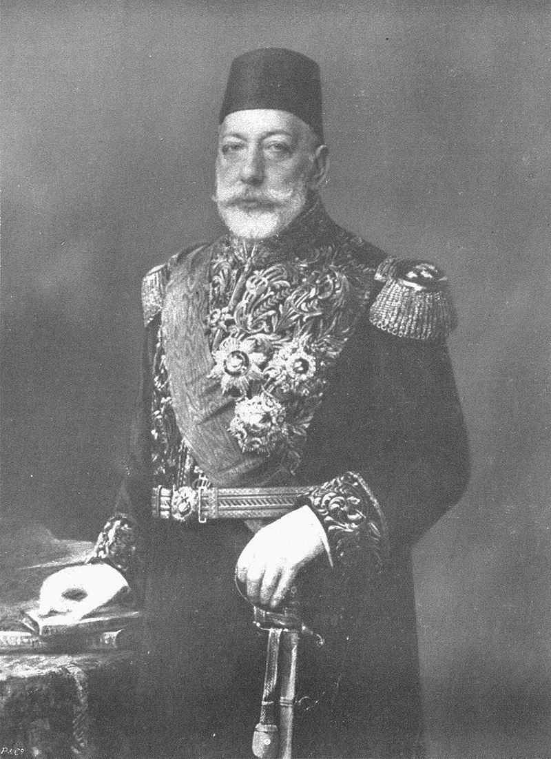 Mehmed V Reşad (1844–1918), Turkish emperor (JPG version)